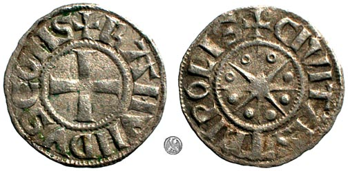 Silver denier Raymond III, count of Tripoli